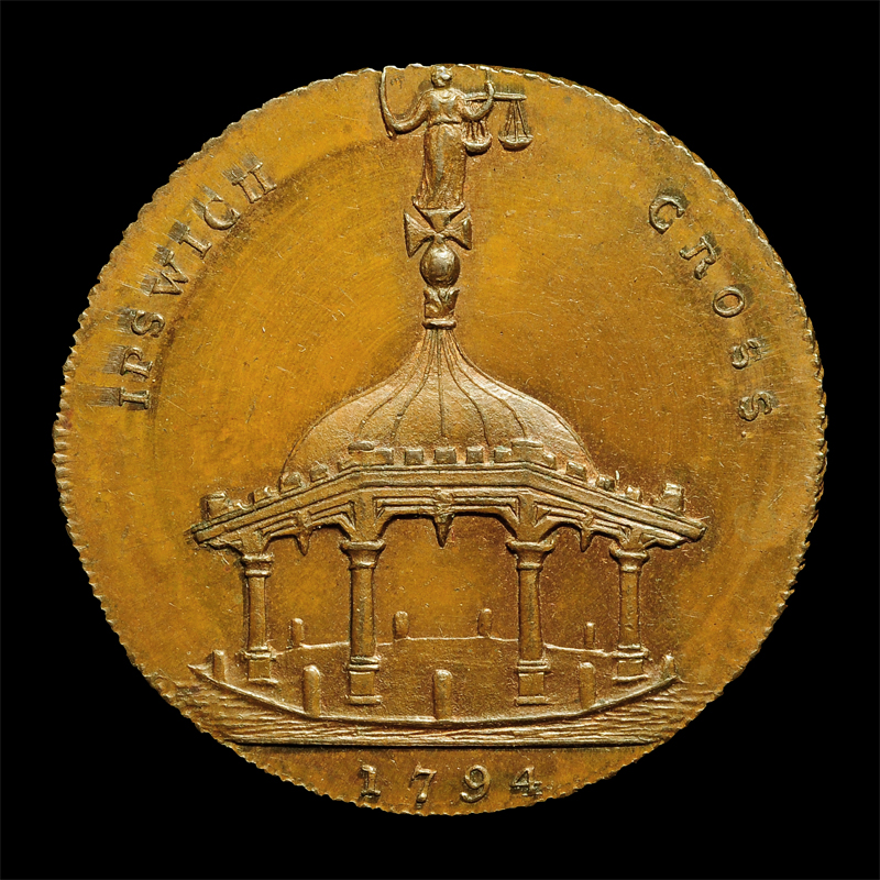 James Conder's own token, produced to advertise his drapery business. Conder Tokens are named after James Conder, who was a coin collector and author, possessing perhaps the finest collection of this 18th Century British Provincial coinage.